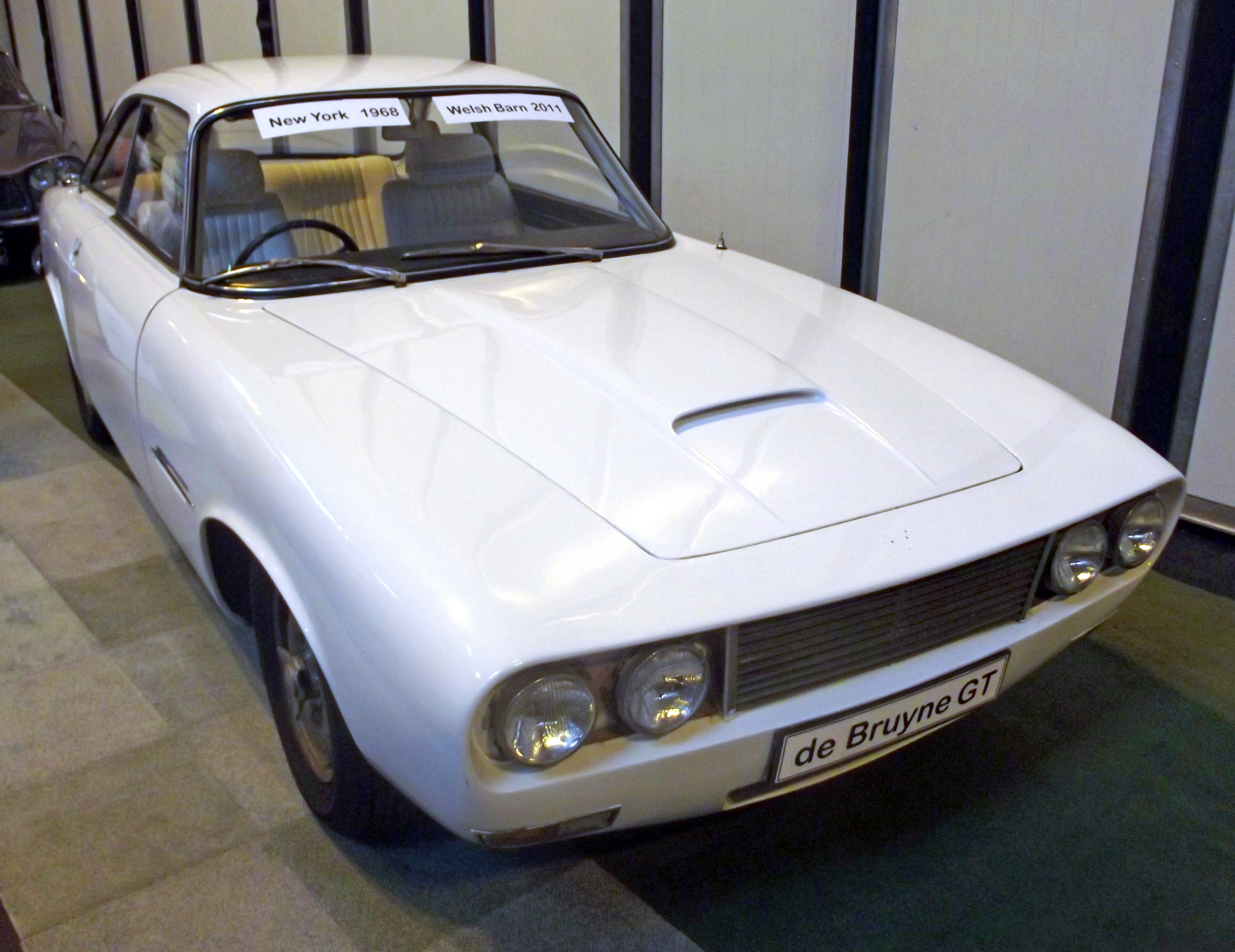 1968 De Bruyne GT - a rebadged and redesigned Gordon-Keeble shown at the New York Auto Show in a 1968 attempt by American investor John de Bruyne to revive the car.